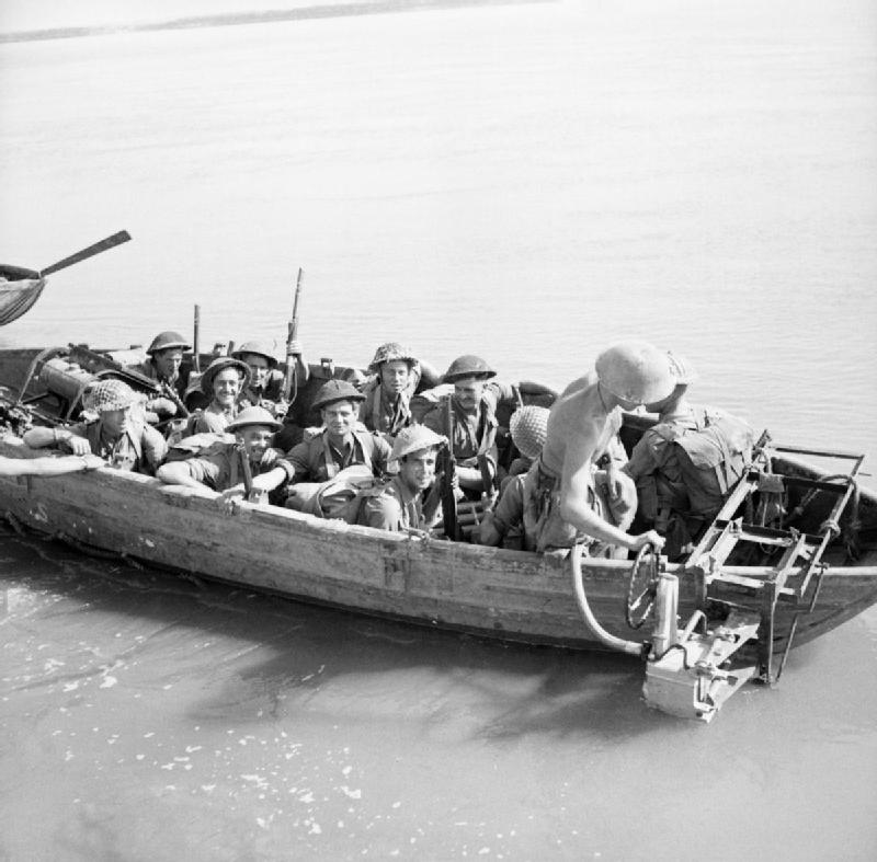 Men of the Dorset Regiment, 2nd Division, crossing the Irrawaddy river at Ngazun, Burma, 28 February 1945. Men of the Dorset Regiment, 2nd Division, crossing the Irrawaddy river at Ngazun in a boat with outboard motor, 28 February 1945.